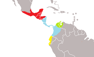 Range map of Tamandua mexicana. Based on: Daya Navarrete & Jorge Ortega: Tamandua mexicana. In: Mammalian Species 2011, Nr. 43, S. 56-63. Green: Tamandua mexicana instabilis Yellow: Tamandua mexicana punensis Red: Tamandua mexicana mexicana Blue: Tamandua mexicana opistholeuca